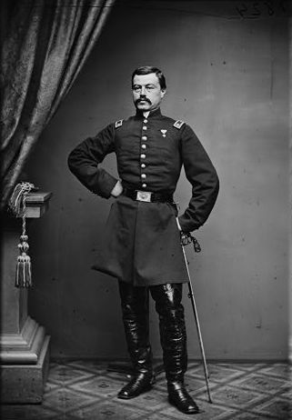 Title: Capt. H. Brandenstein, 46th N.Y. Inf. Physical description: 1 negative